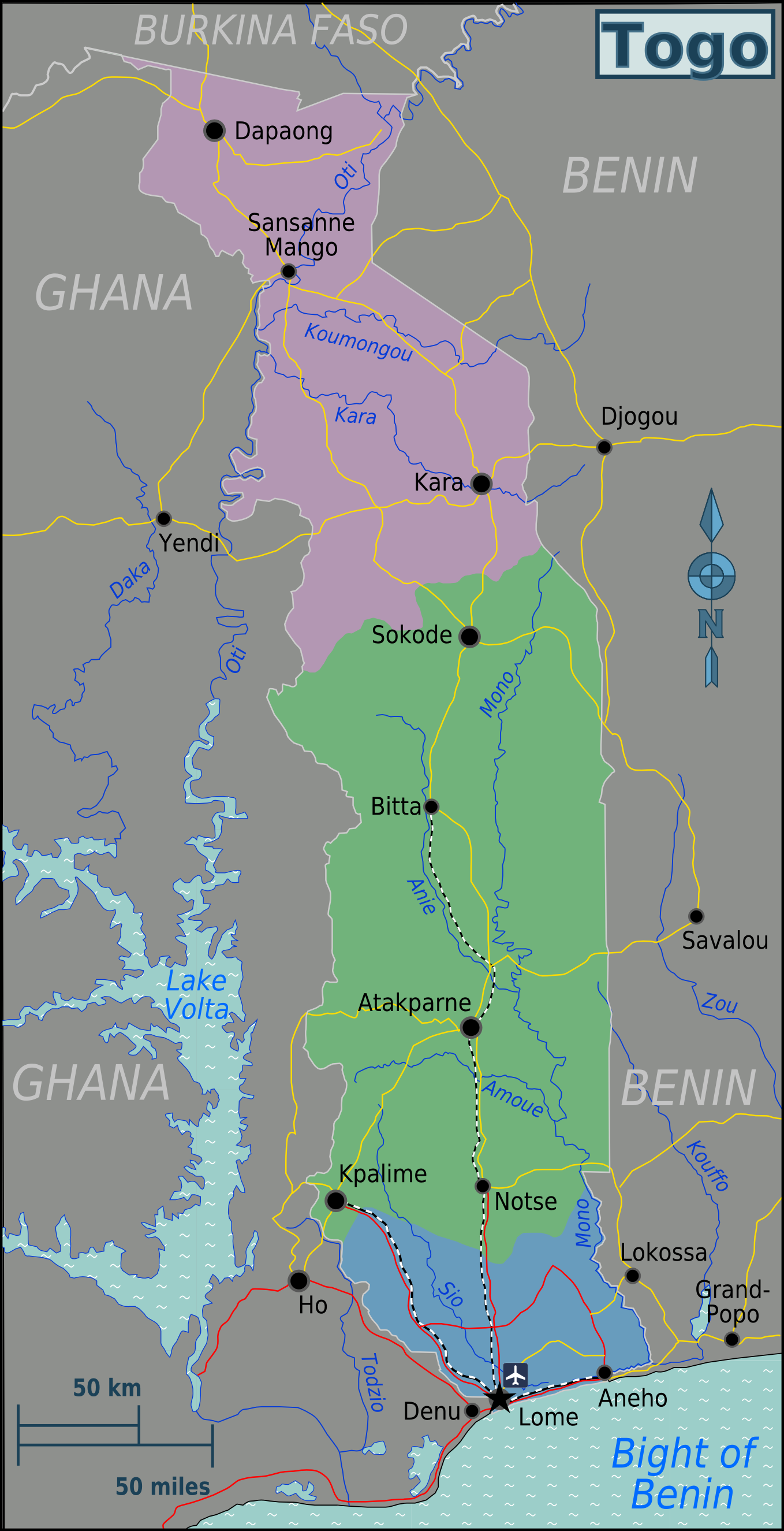 Map of Togo. Map of Togo, Togo Map of: Togo¤.